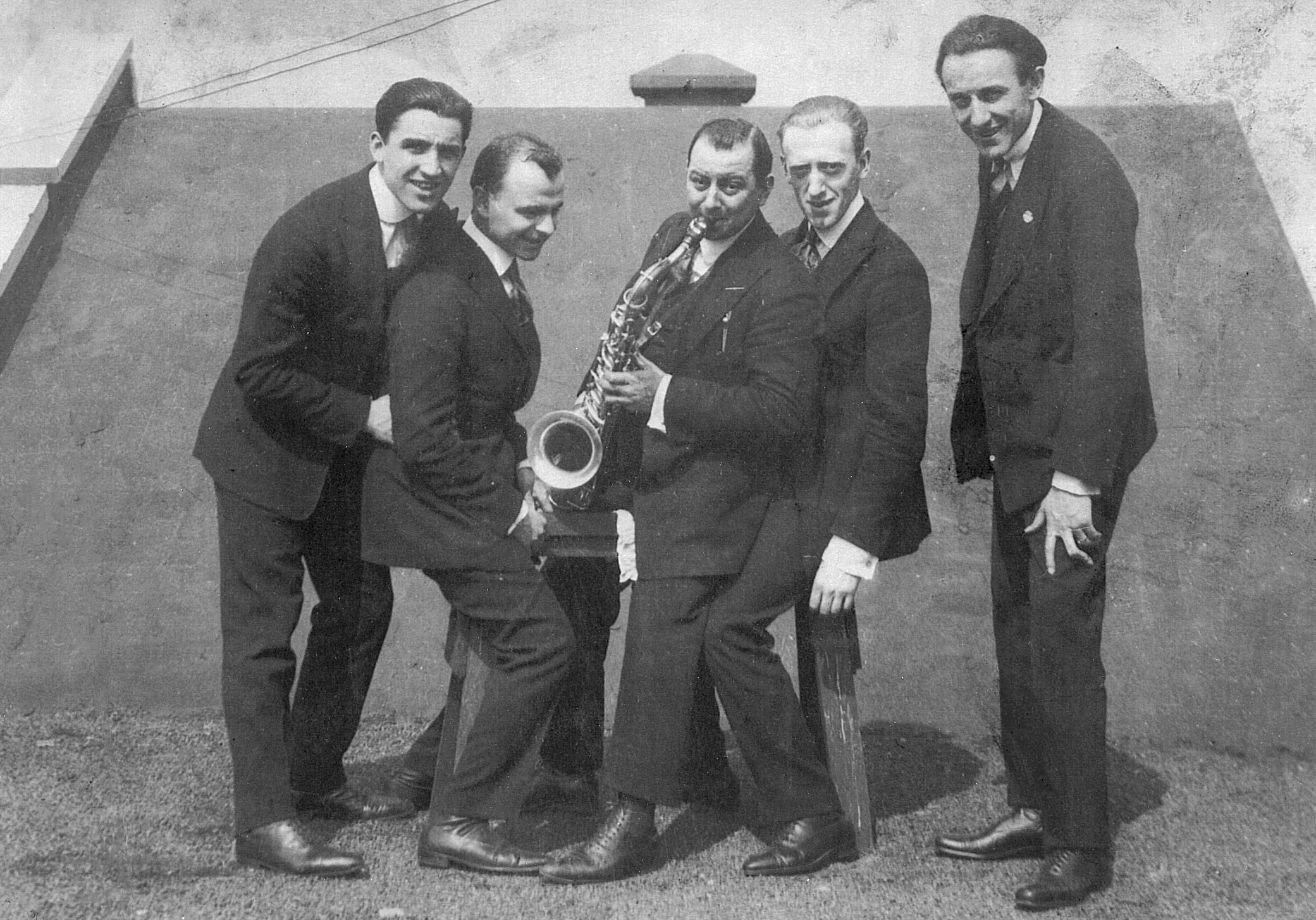 Louisiana Five jazz band, posed on a roof top, 1919. Left to right: Charlie Panely (as he spelled it; often rendered Panelli), Karl Berger, Alcide "Yellow" Nunez with saxophone (tenor or C-melody?), Joe Cawley, Anton Lada.